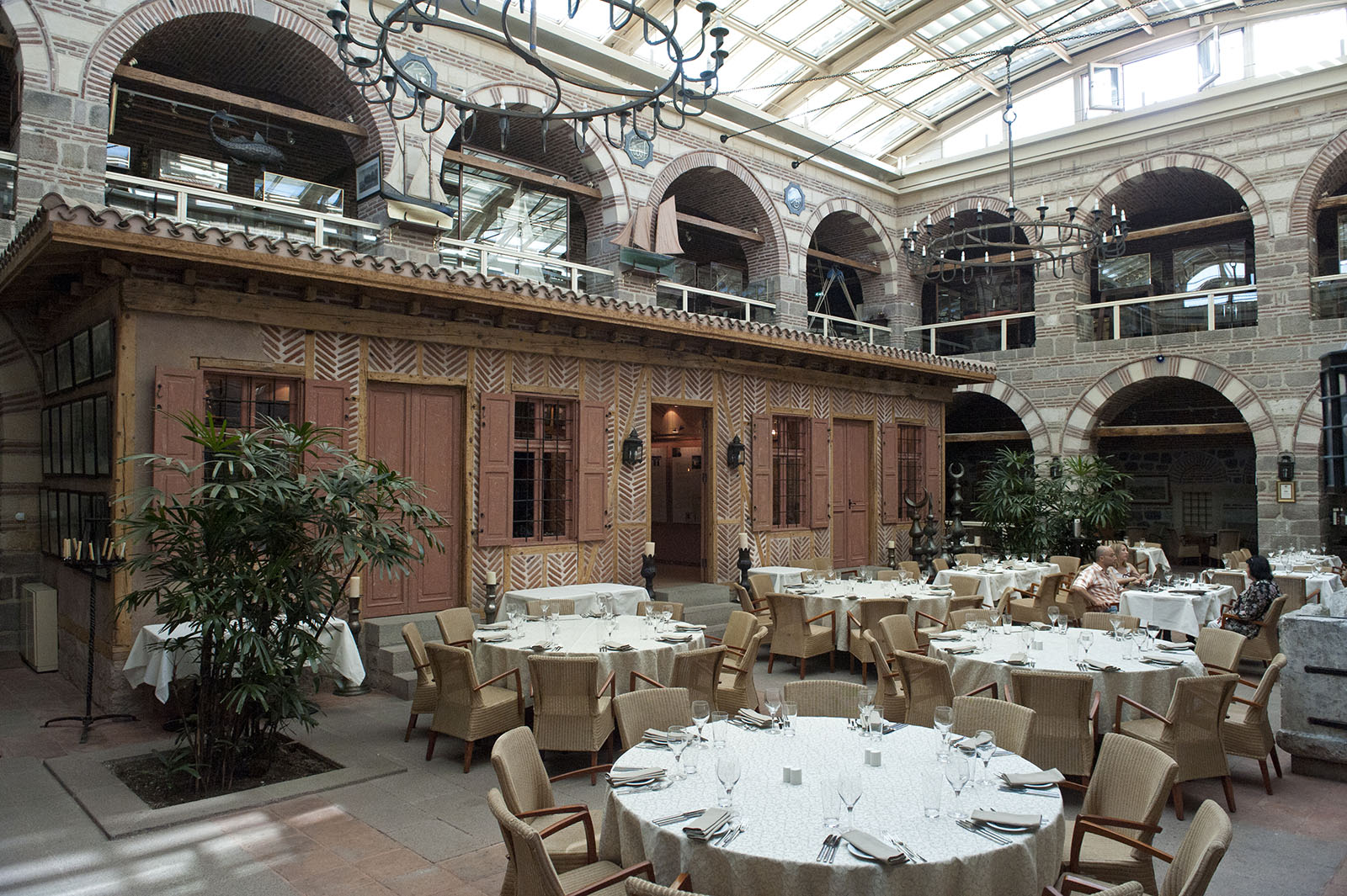 Here one sees how the courtyard of a former han has been covered with a glass roof.